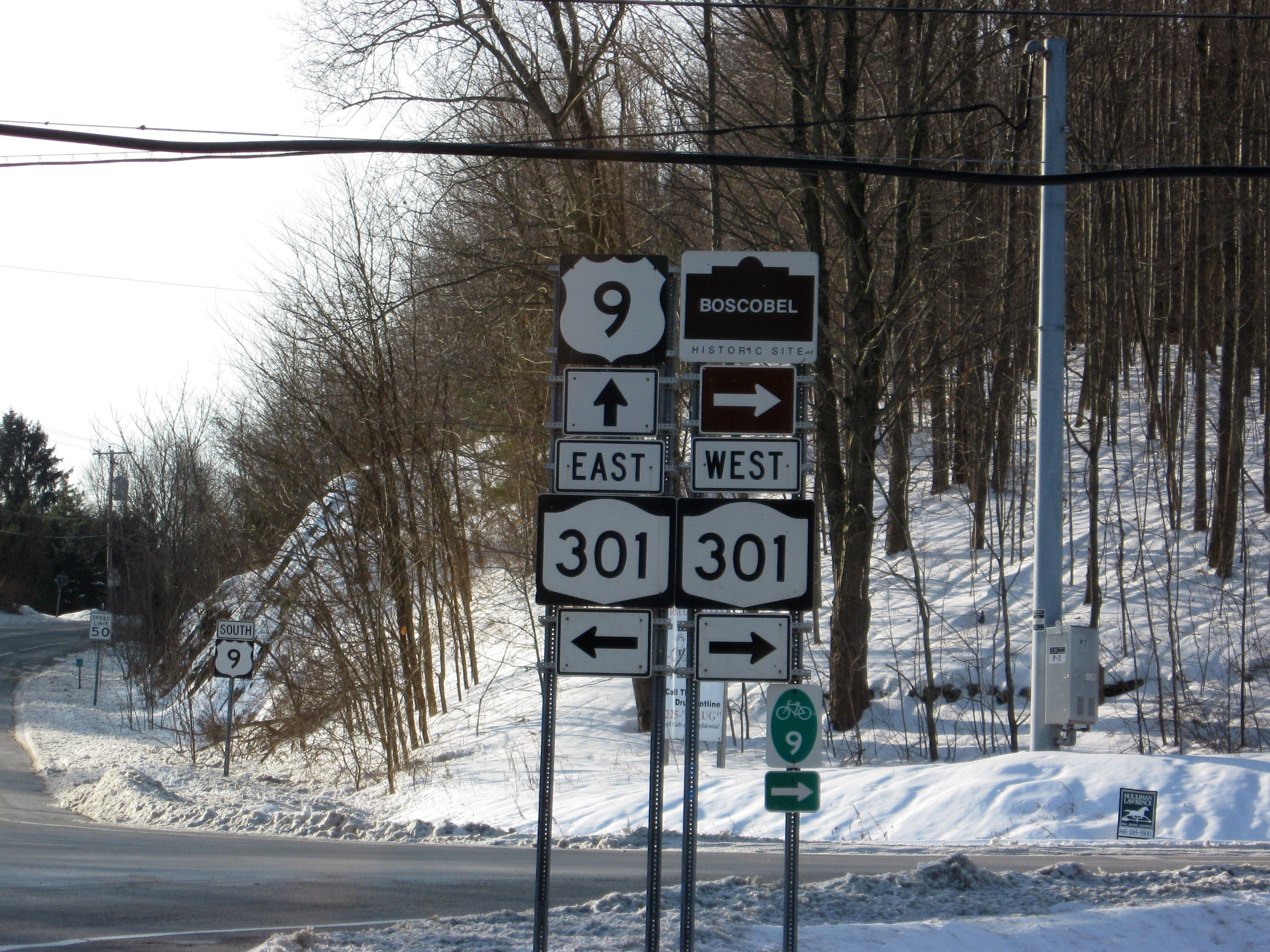 Southbound US 9 at the intersection of NY 301 in Philipstown, New York. Southbound New York State Bicycle Route 9 makes a turn from US 9 to NY 301.